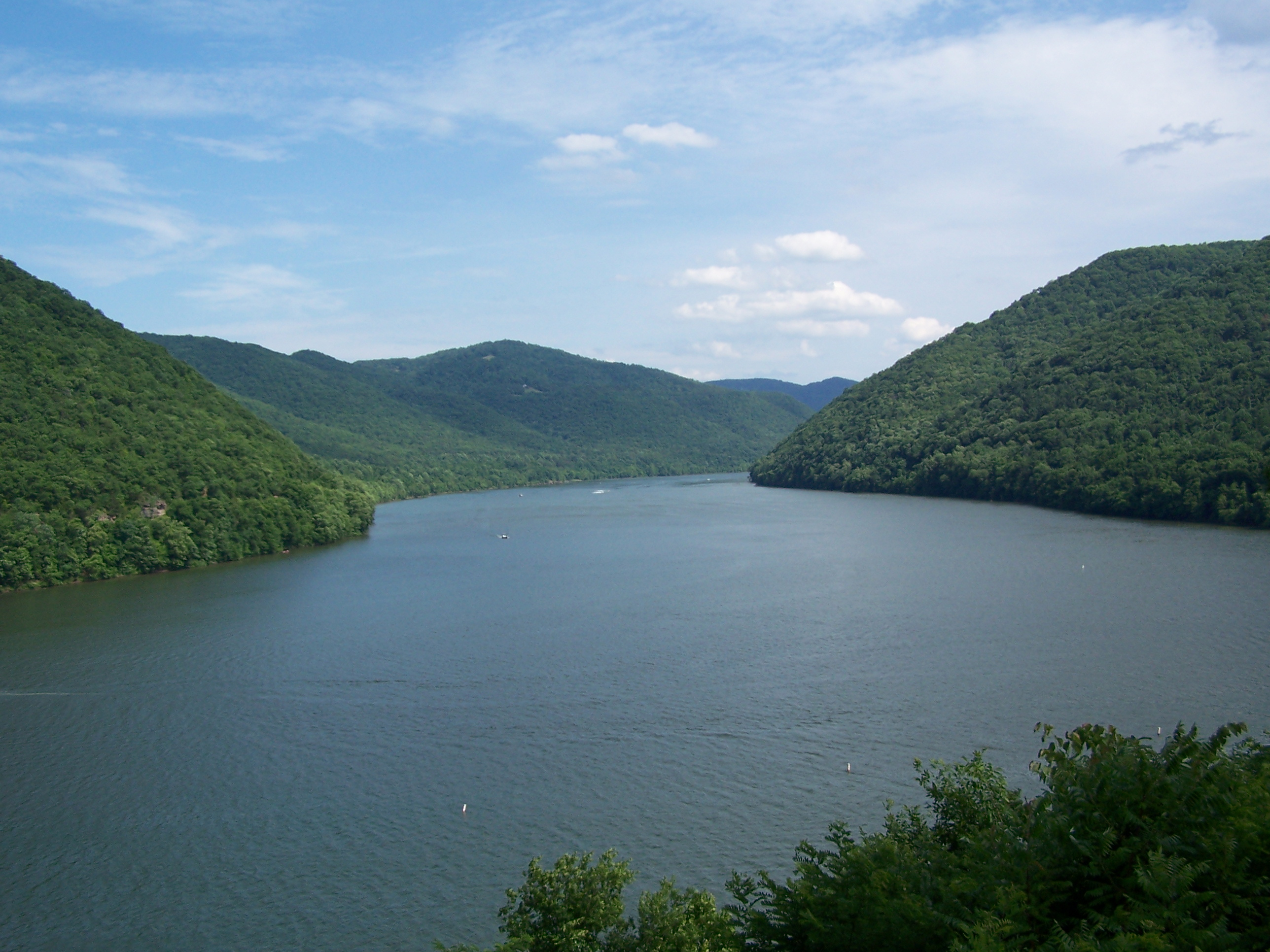 Bluestone Lake near the Bluestone State Park marina. The Bluestone River goes to the right; the New River channel is towards the left and foreground.